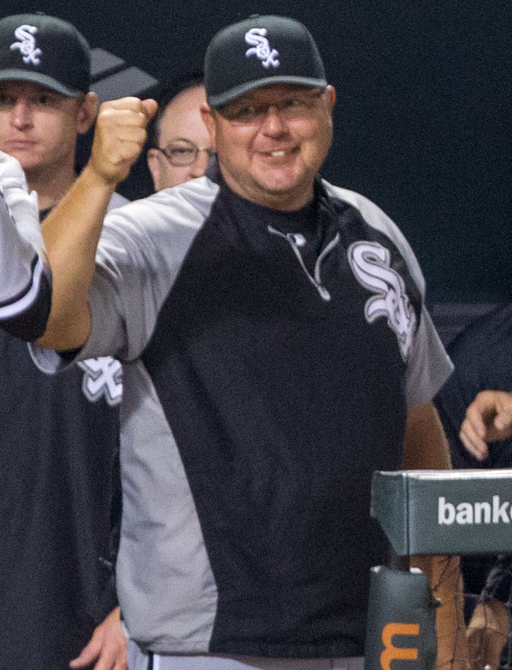 Alexei Ramirez of the Chicago White Sox returns to his dugout at Oriole Park at Camden Yards during an August 29, 2012 game.